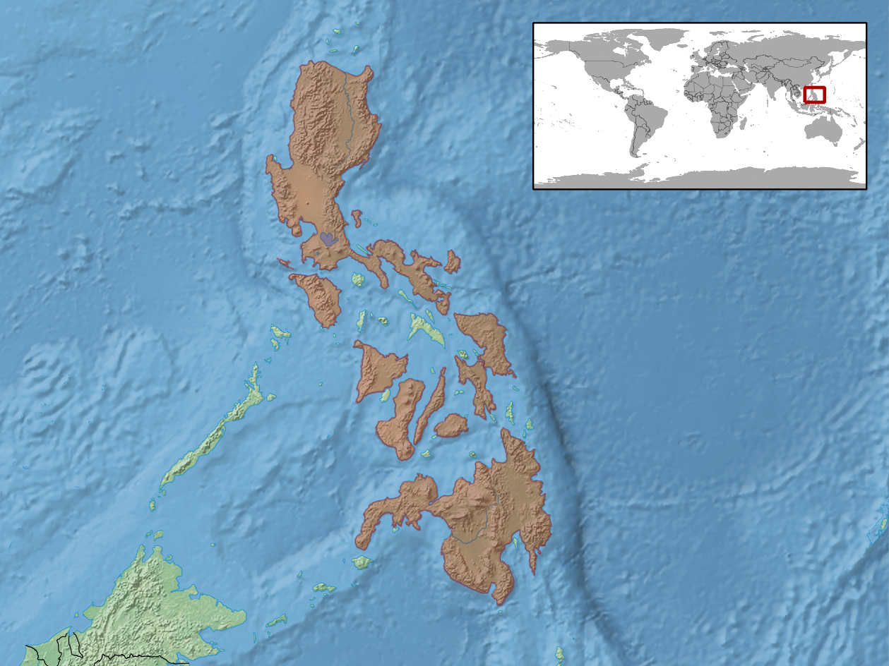 geographic distribution of Boiga angulata (Native: Philippines)